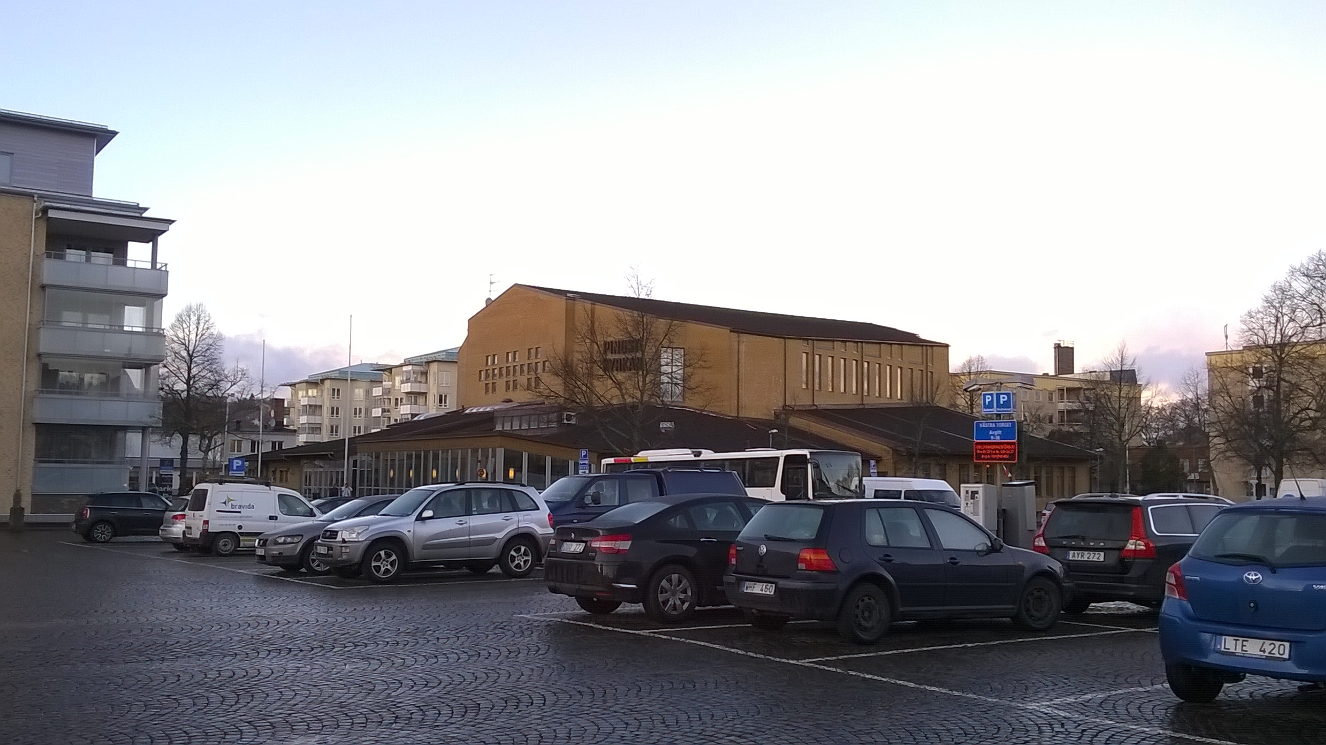 Jönköping Pentecostal Church 19 December 2014